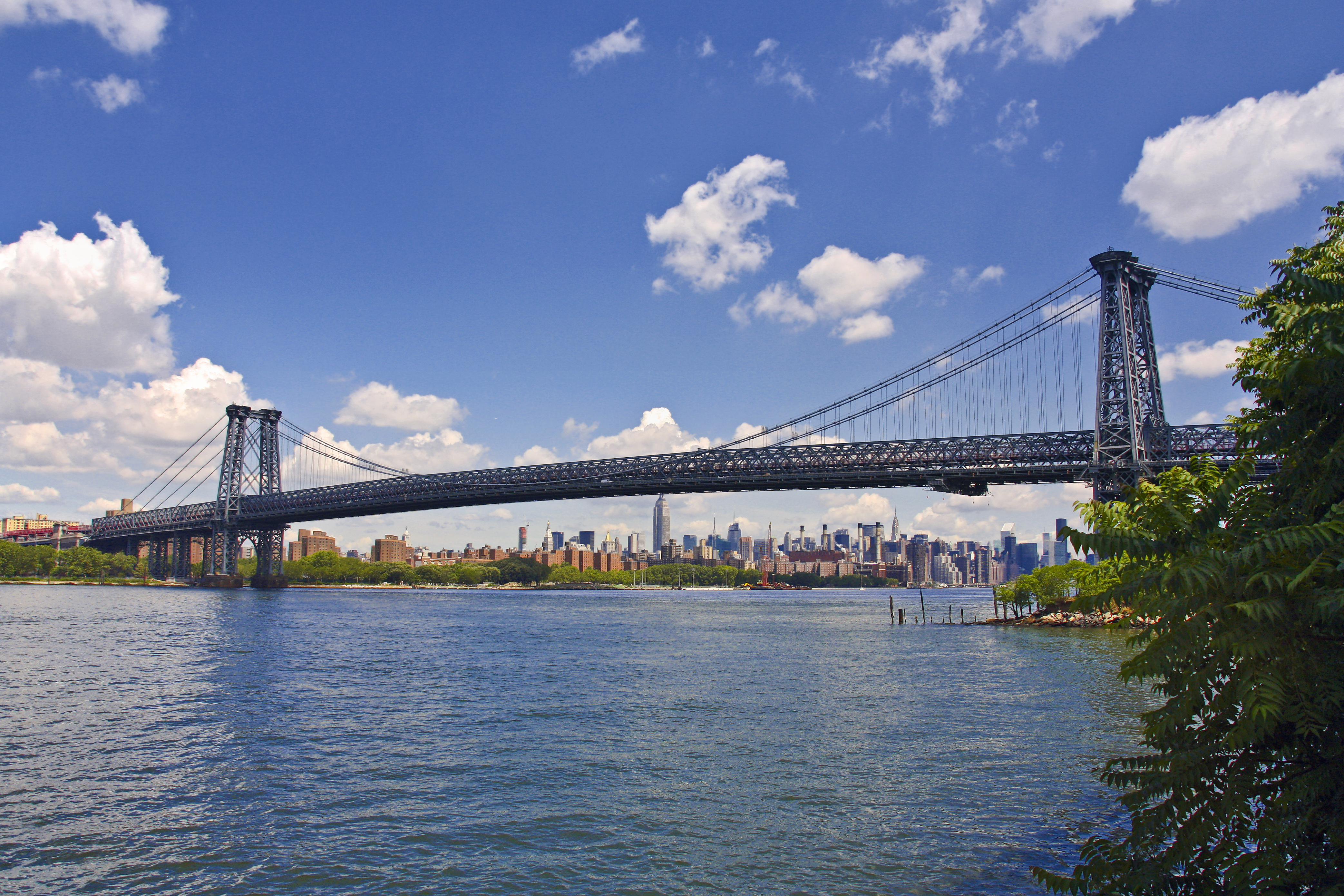 New York, Williamsburg Bridge